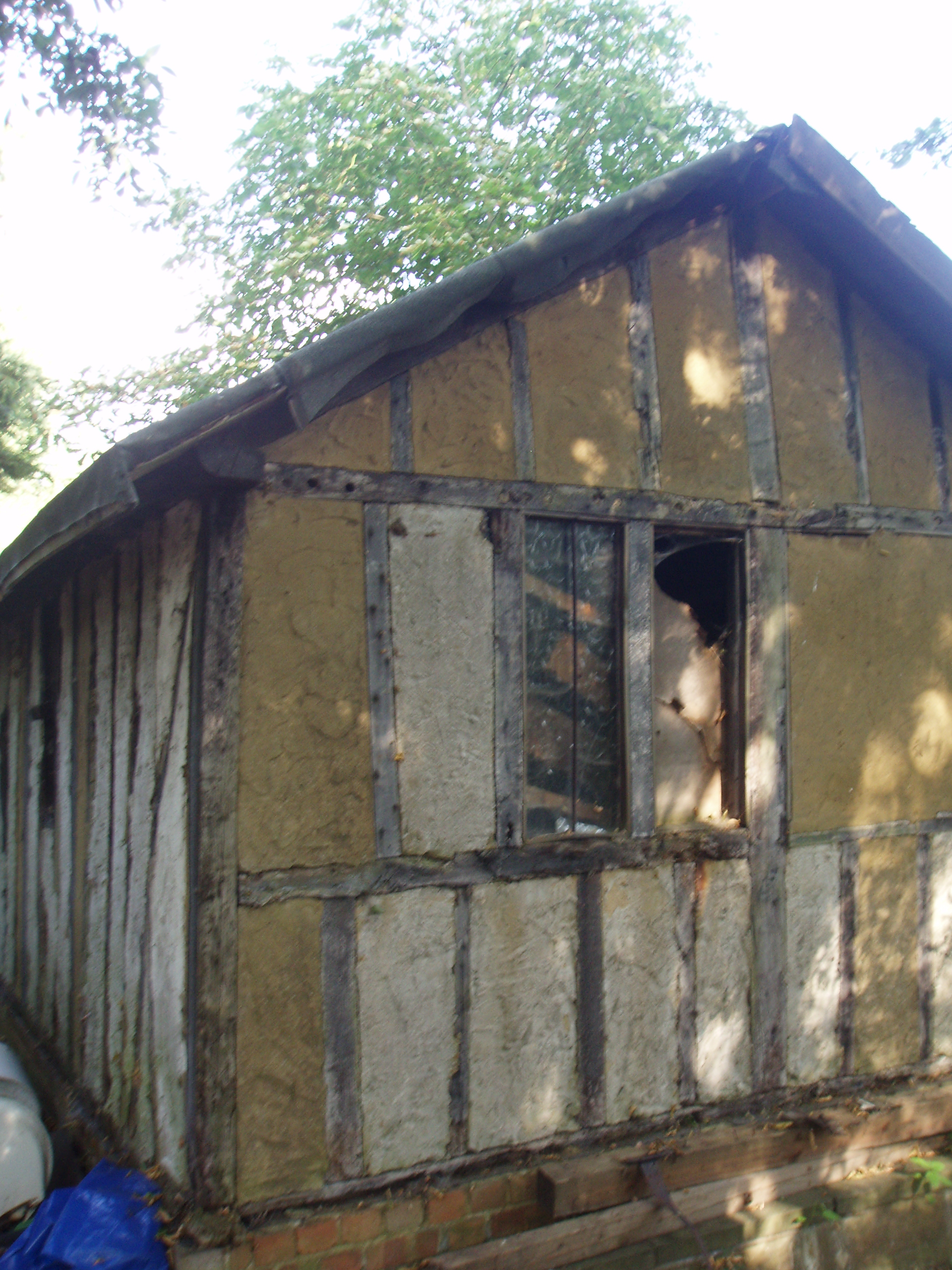 The Witches' Cottage, a hut in Bricket Wood, England, used by Gerald Gardner and his Bricket Wood Coven to perform rituals during the mid-20th century.